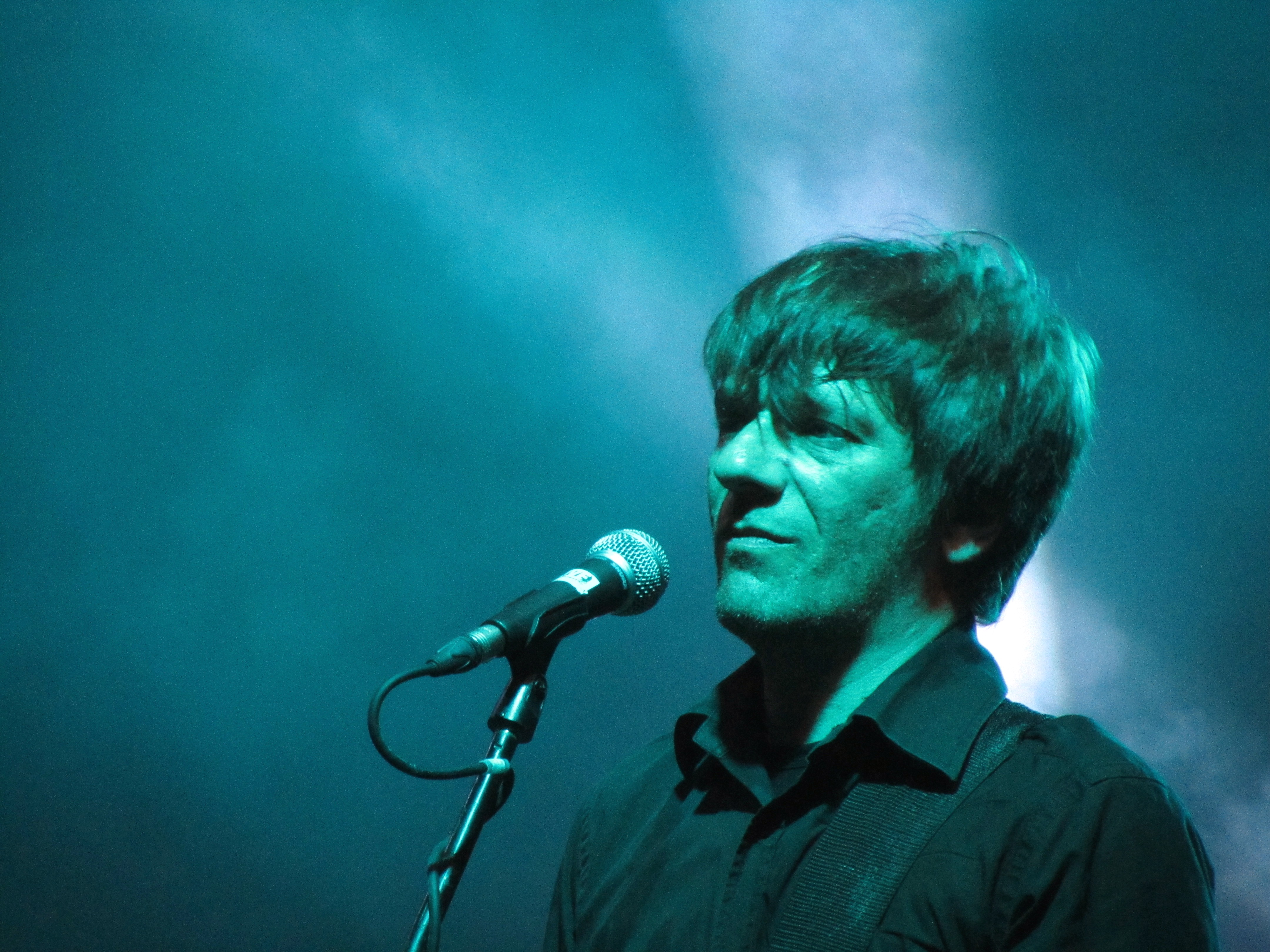 Pierpaolo Capovilla in concert